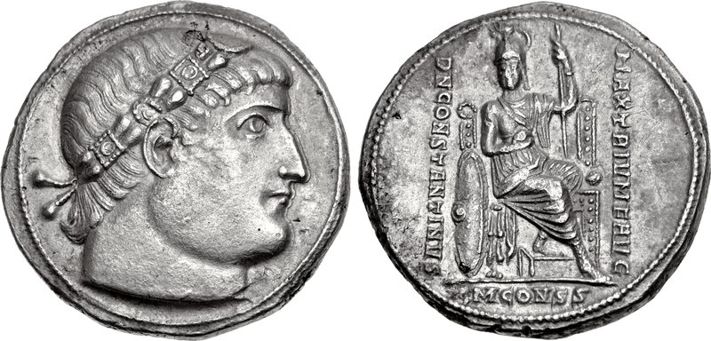 Constantine I. AD 307/310-337. AR Medallion of 5 Siliquae (30mm, 17.86 g, 6h). Donative to Commemorate the Dedication of Constantinople. Constantinople mint, 6th officina. Struck shortly before 11 May AD 330. Laurel-and-rosette-diademed head right / D N CONSTANTINVS down left field, MAX TRIVMF AVG, down right, Roma enthroned facing with right foot on footstool, shield on ground at side, holding globus in right hand and scepter in left.